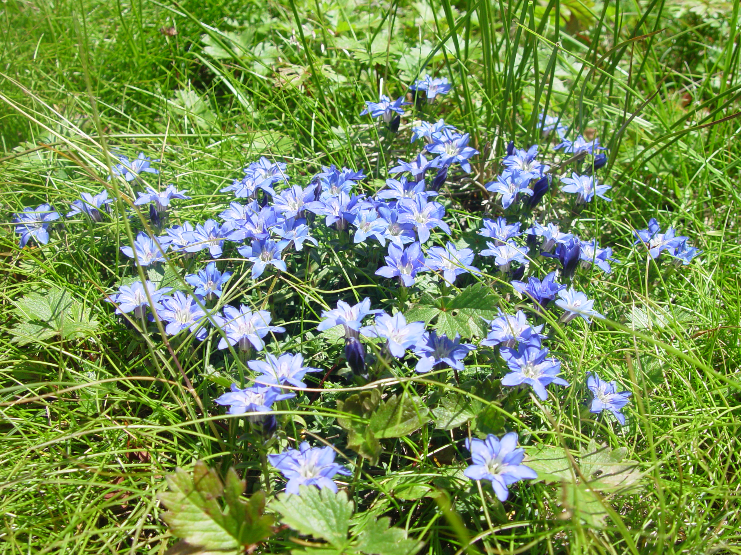 Gentiana nipponica Maxim. in Mount Yumiori, Takayama, Gifu pref., Japan.